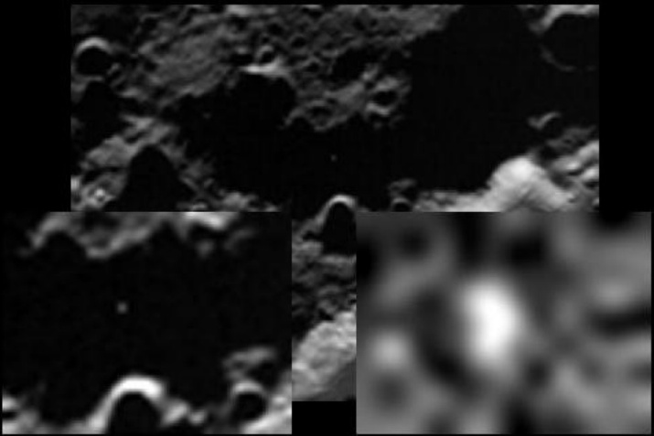 This mid-infra-red image was taken in the last minutes of the LCROSS flight mission to the Moon. The small white spot (enlarged in the insets) seen within the dark shadow of lunar crater walls is the initial flash created by the impact of a spent Centaur upper stage rocket. Travelling at 1.5 miles per second, the Centaur rocket hit the lunar surface, followed a few minutes later by the shepherding LCROSS spacecraft. Earthbound observatories have reported capturing both impacts. But before crashing into the lunar surface itself, the LCROSS spacecraft's instrumentation successfully recorded close-up the details of the rocket stage impact, the resulting crater, and debris cloud. In the coming weeks, data from the challenging mission will be used to search for signs of water in the lunar material blasted from the surface.